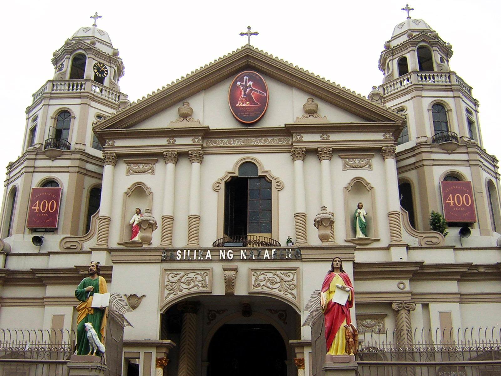 Quiapo Church, officially known as Minor Basilica of the Black Nazarene in Manila, Philippines Tagalog: Simbahan ng Quiapo (Basilika Menor ng Nazareno) sa Quiapo, Maynila, Pilipinas